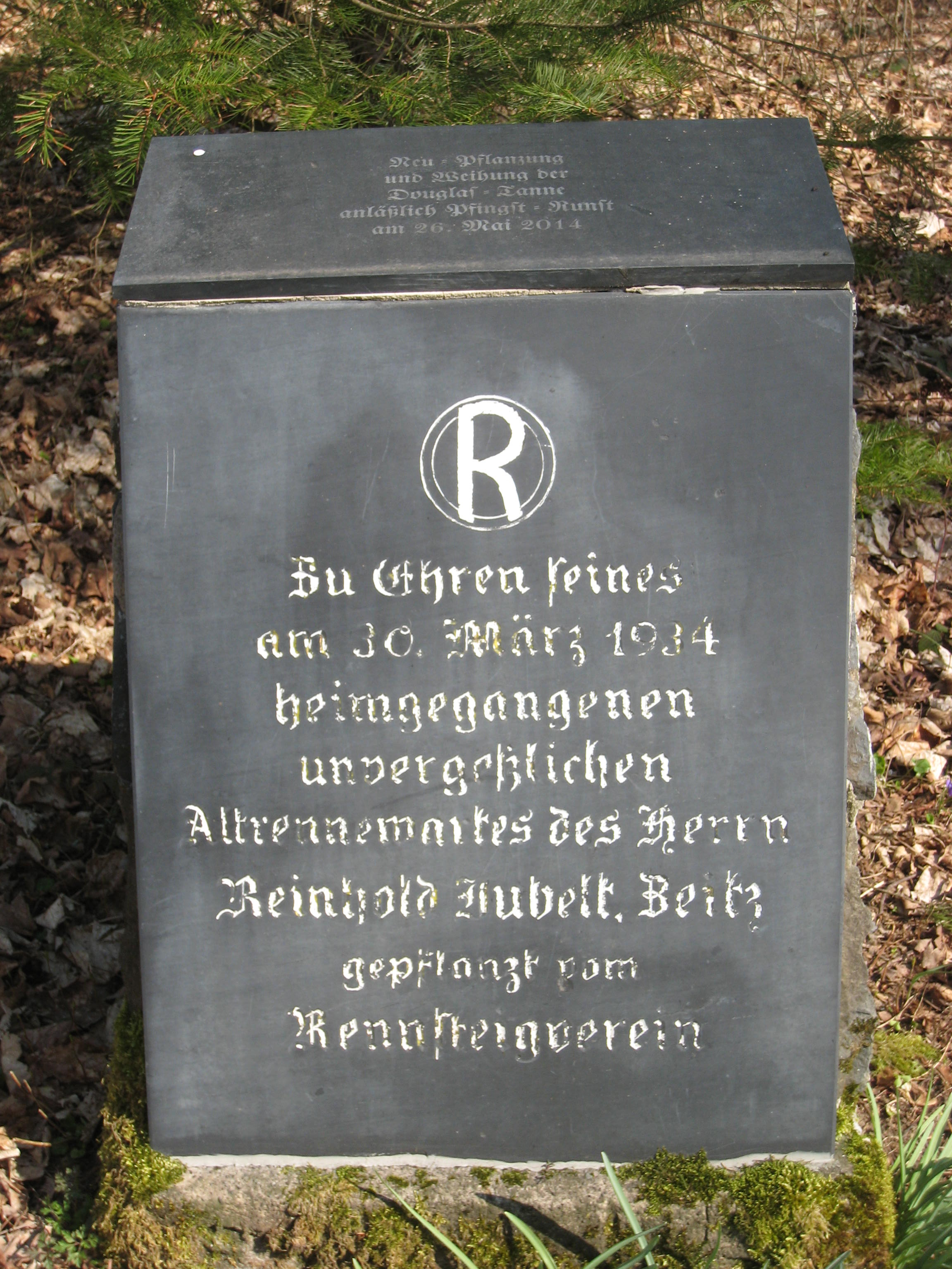 Reinhold Jubelt Gedenkstein in Steinbach am Wald